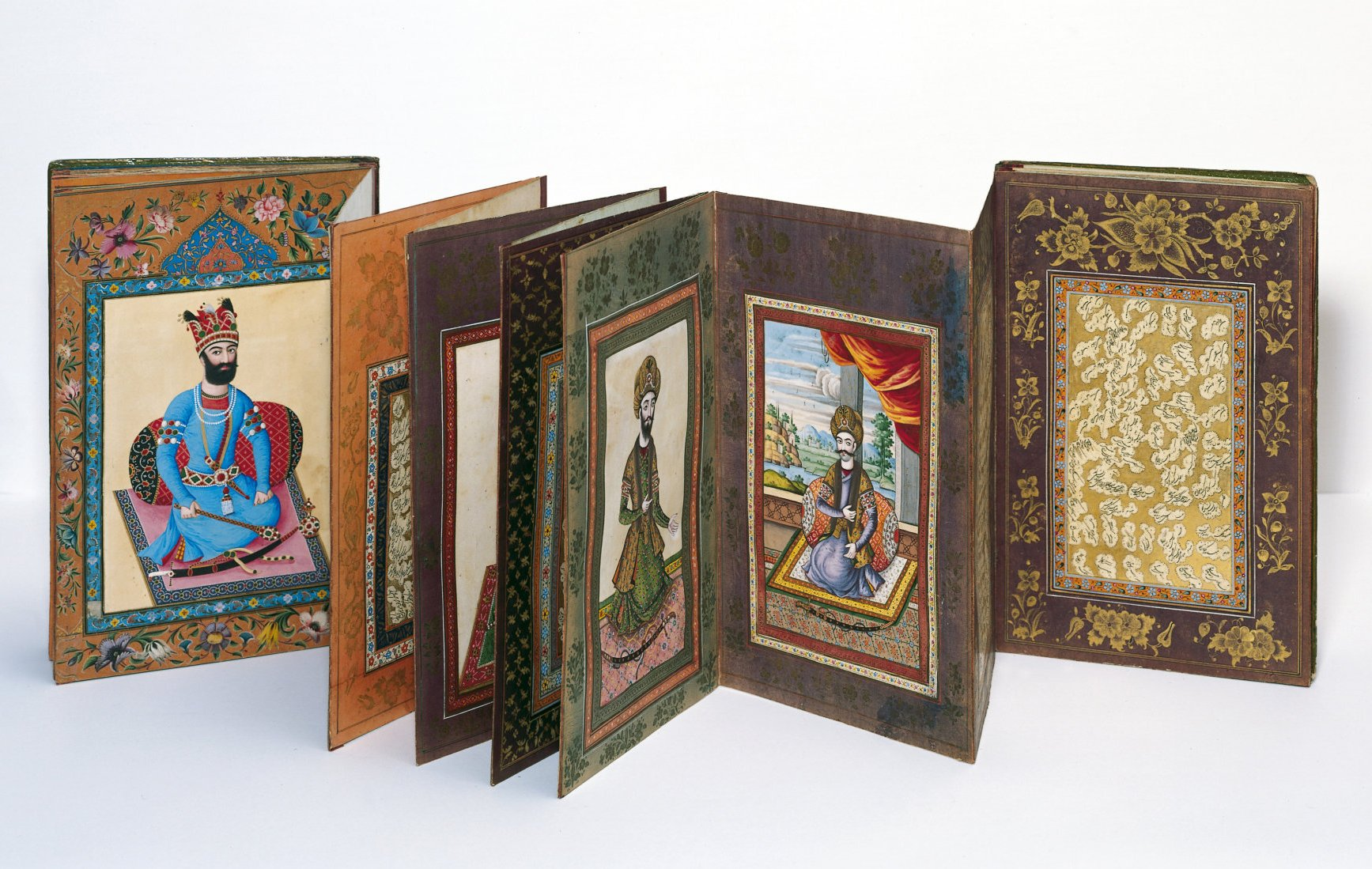 Muraqqa' (album) Of Portraits And Calligraphies, Qajar, 19th century CE, Aga Khan Museum